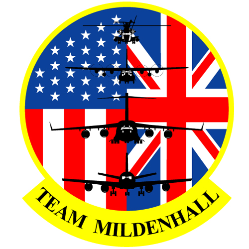 Team Mildenhall Logo. Source: RAF Mildenhall Public Affairs.